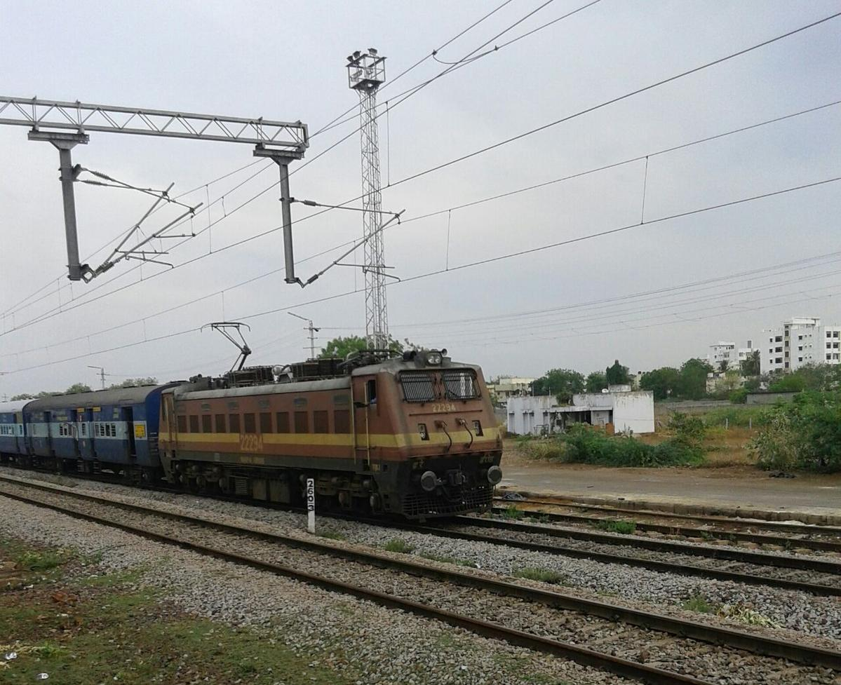 Tpty Bound Haripriya Express